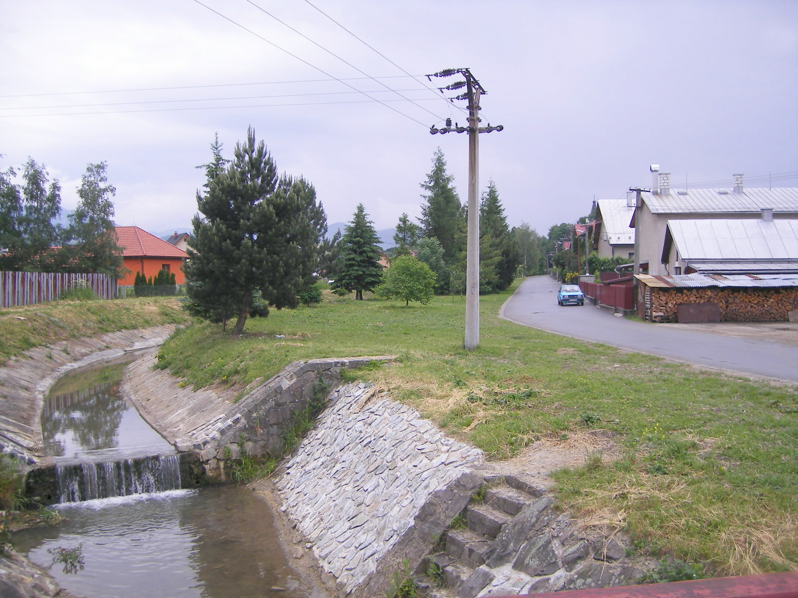 Dražkovce - street view